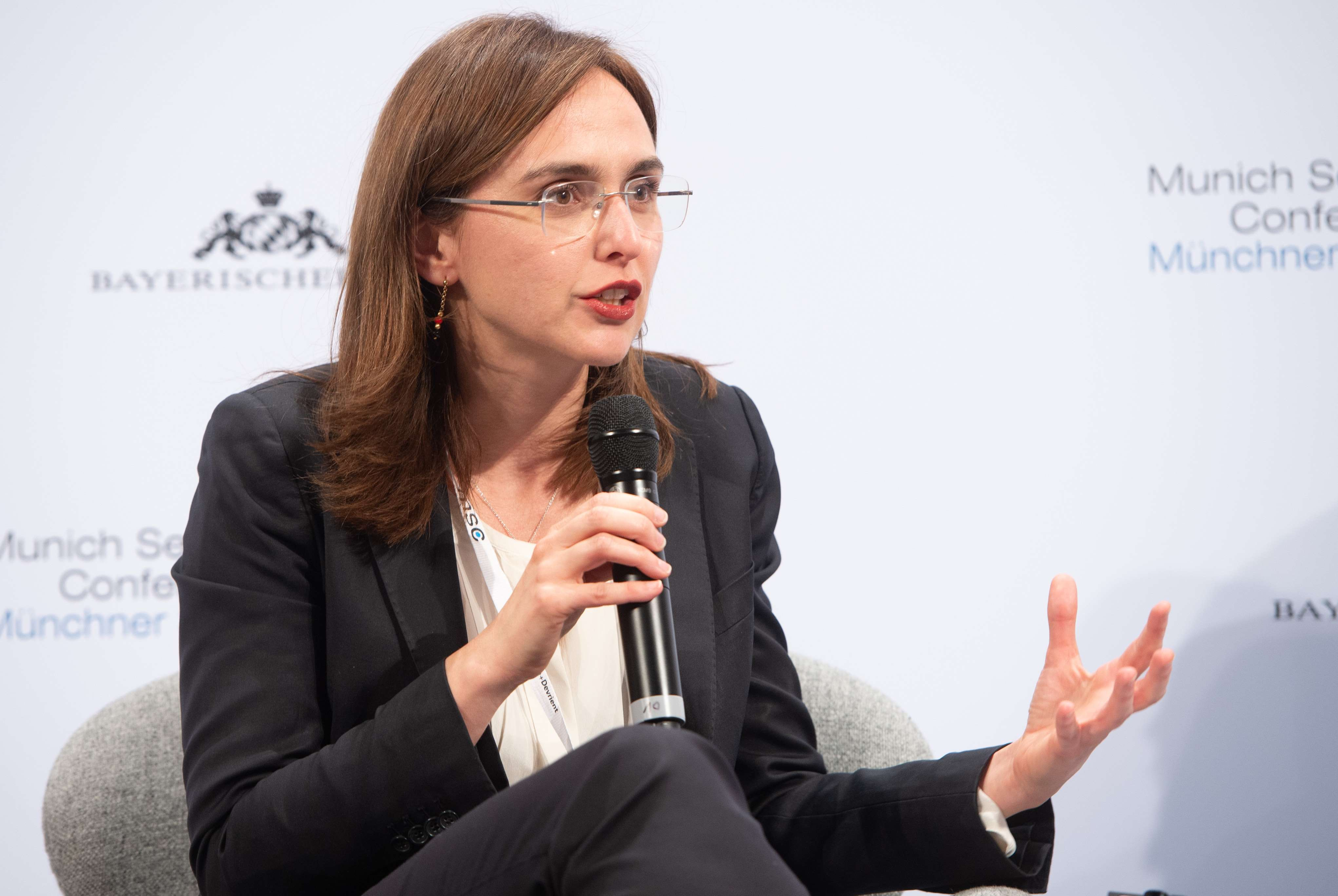 Lia Quartapelle Procopio (Secretary of the Committee on Foreign and Community Affairs at the Camera dei Deputati, Parliament of the Italian Republic)